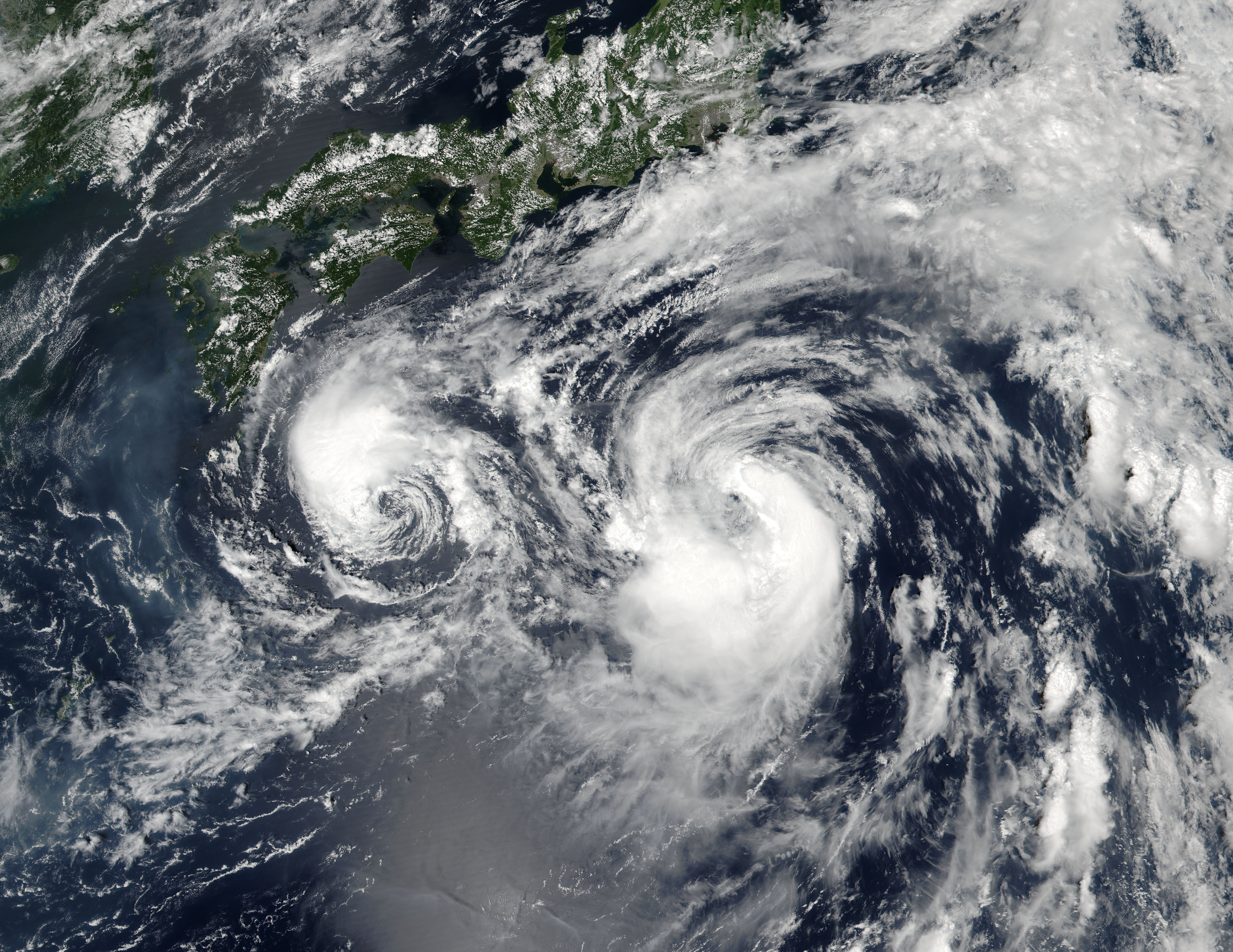 Tropical Storms Mindulle (10W) and Lionrock (12W) off Japan